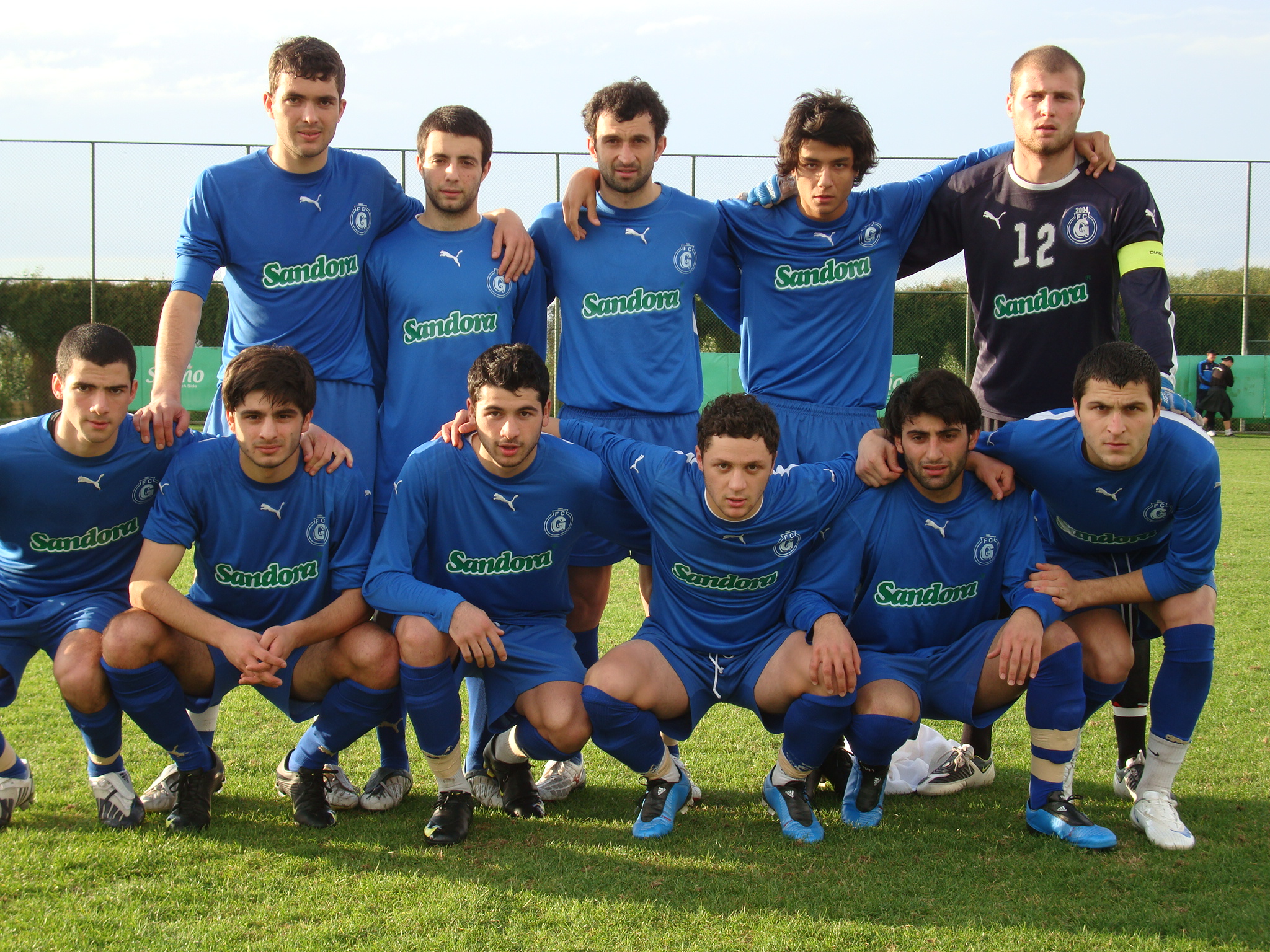 fcgagra